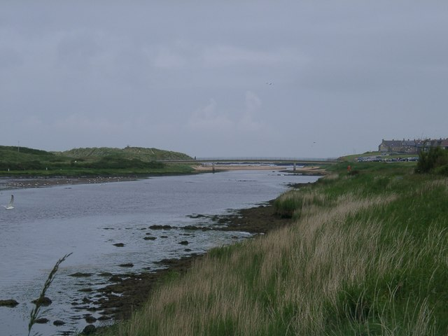 River Ugie and footbridge. Photo taken at mid tide